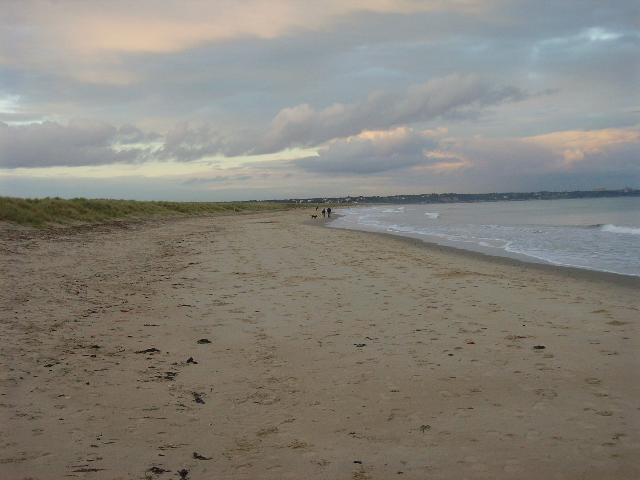 Photograph of Studland beach.